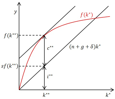 Solow model, the Golden rule